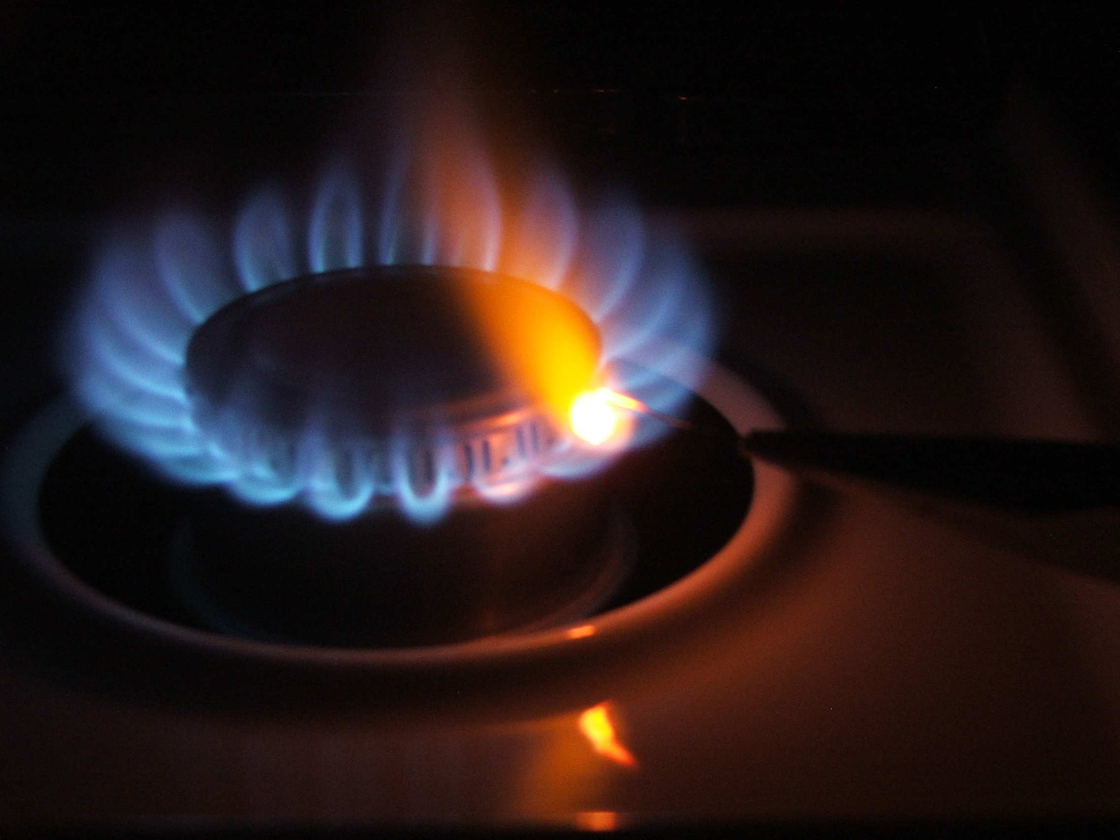 This is a homemade limelight. It is not as bright as a real limelight. It is made by heating some calcium hydroxide on a steel wire with a stove burner. The reddish-orange color made is the color produced by calcium ions in a flame.